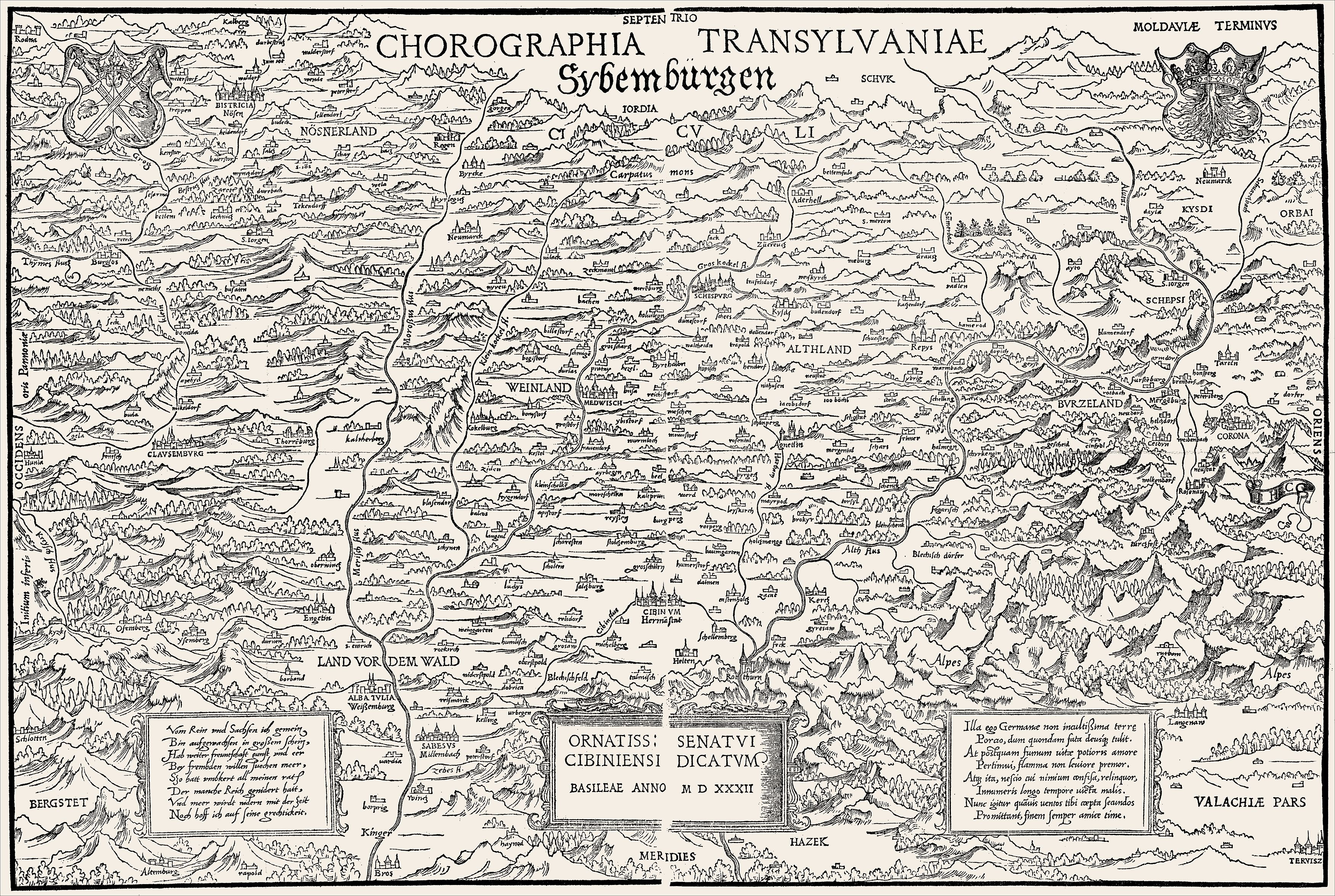 Old map of Transylvania created by Johannes Honterus Coronensis 1532 in Basel